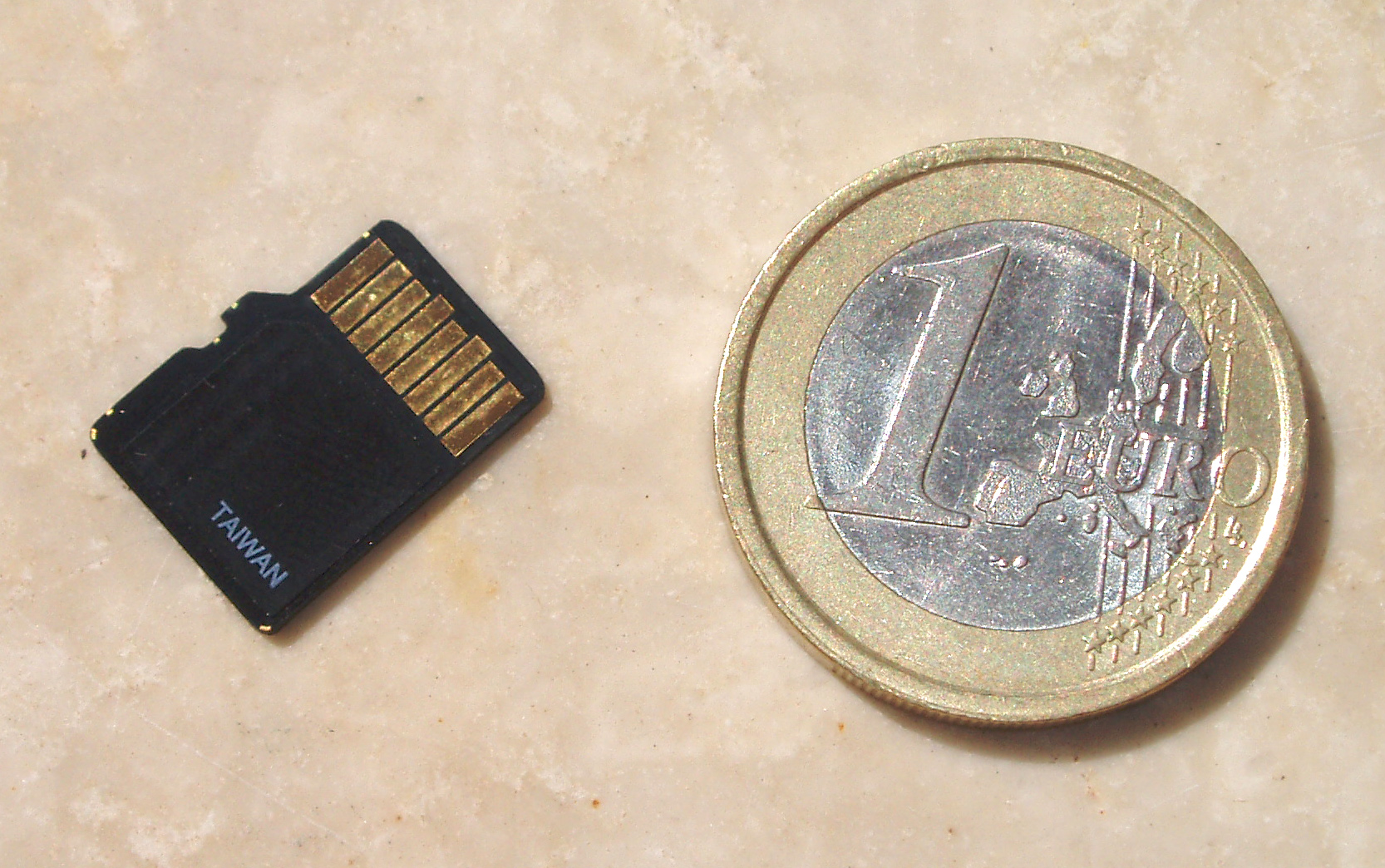 SanDisk TransFlash 64 MB memory card.